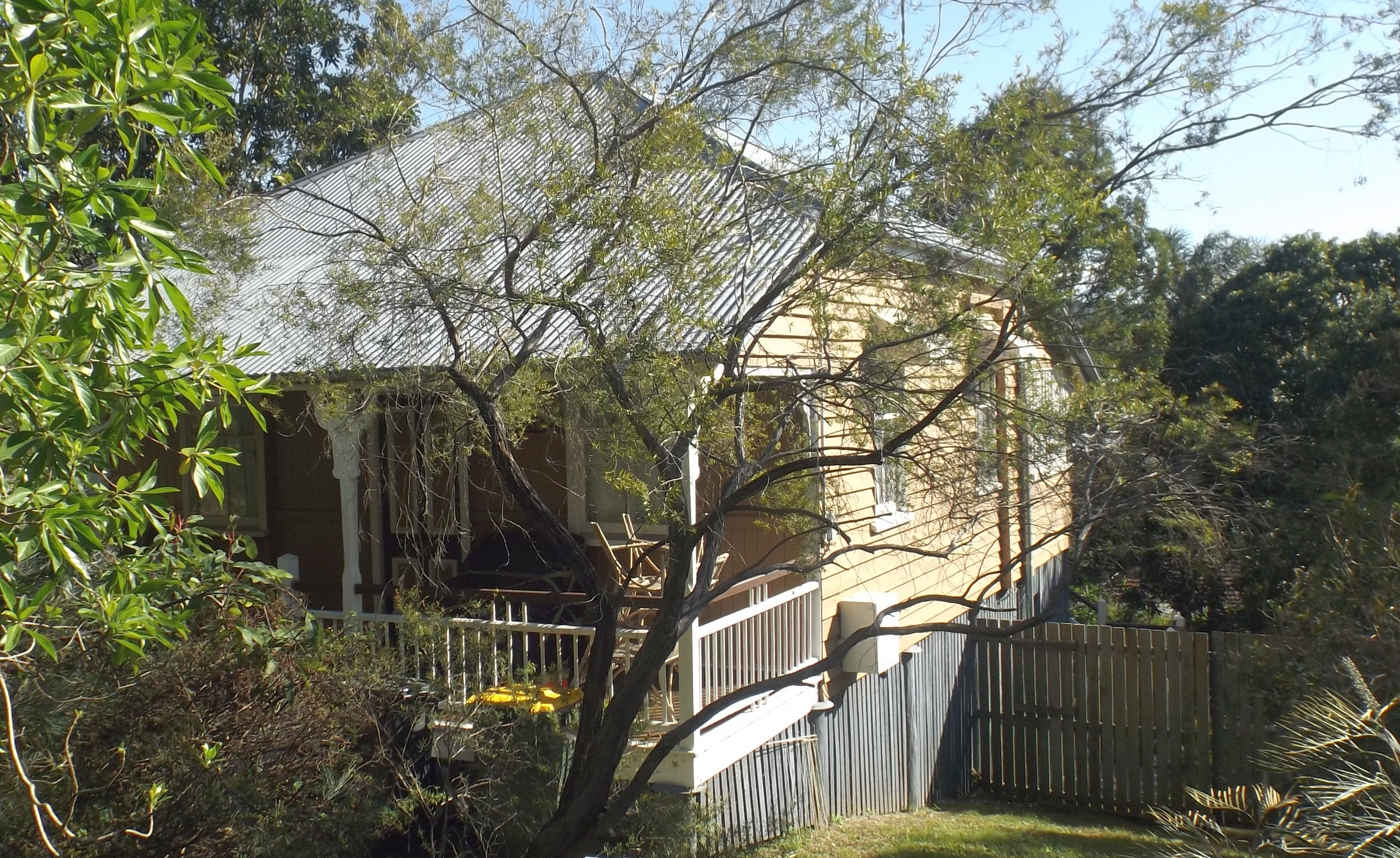 Photo of Strathearn residence at Alderley, Brisbane, Queensland, Australia.